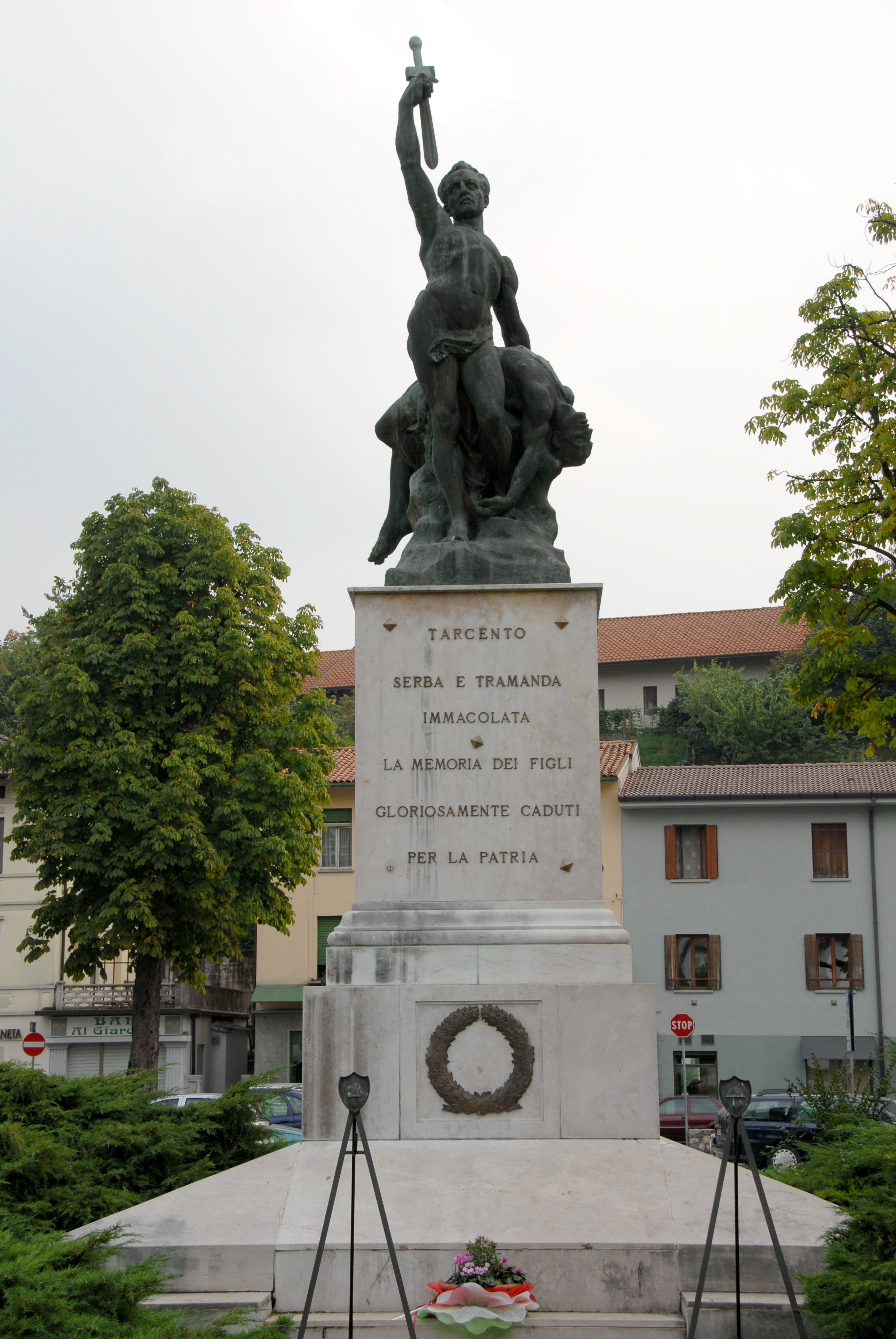 Monument for the fallen of wars in Tarcento, Province of Udine, Friuli, Italy